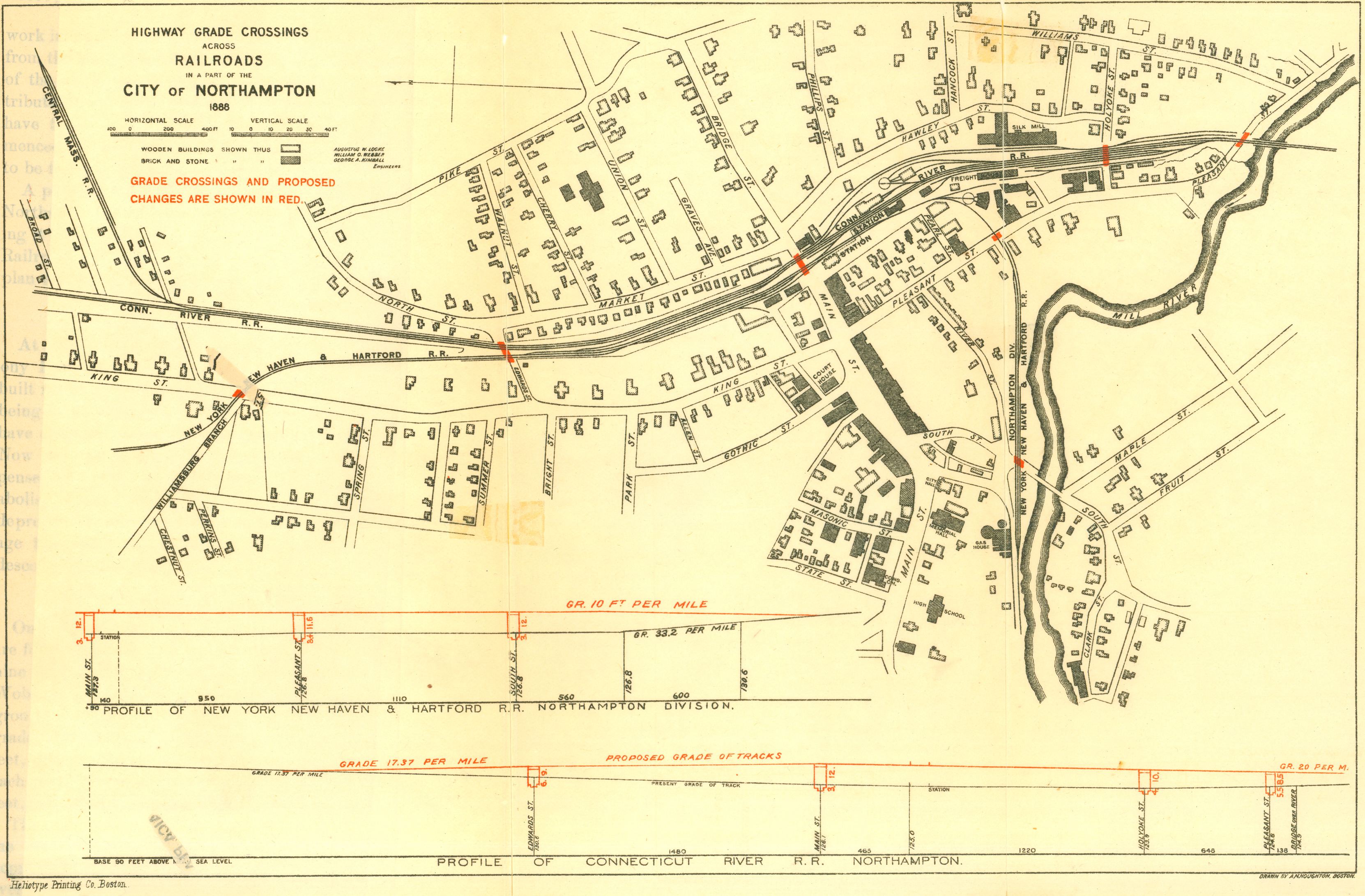 A map detailing the railroad lines and highway grade crossings in a part of the city of Northampton, Massachusetts